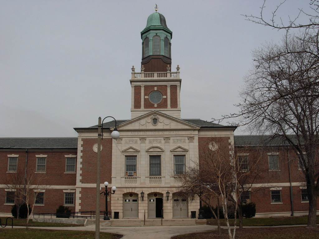 Austin Town Hall, front